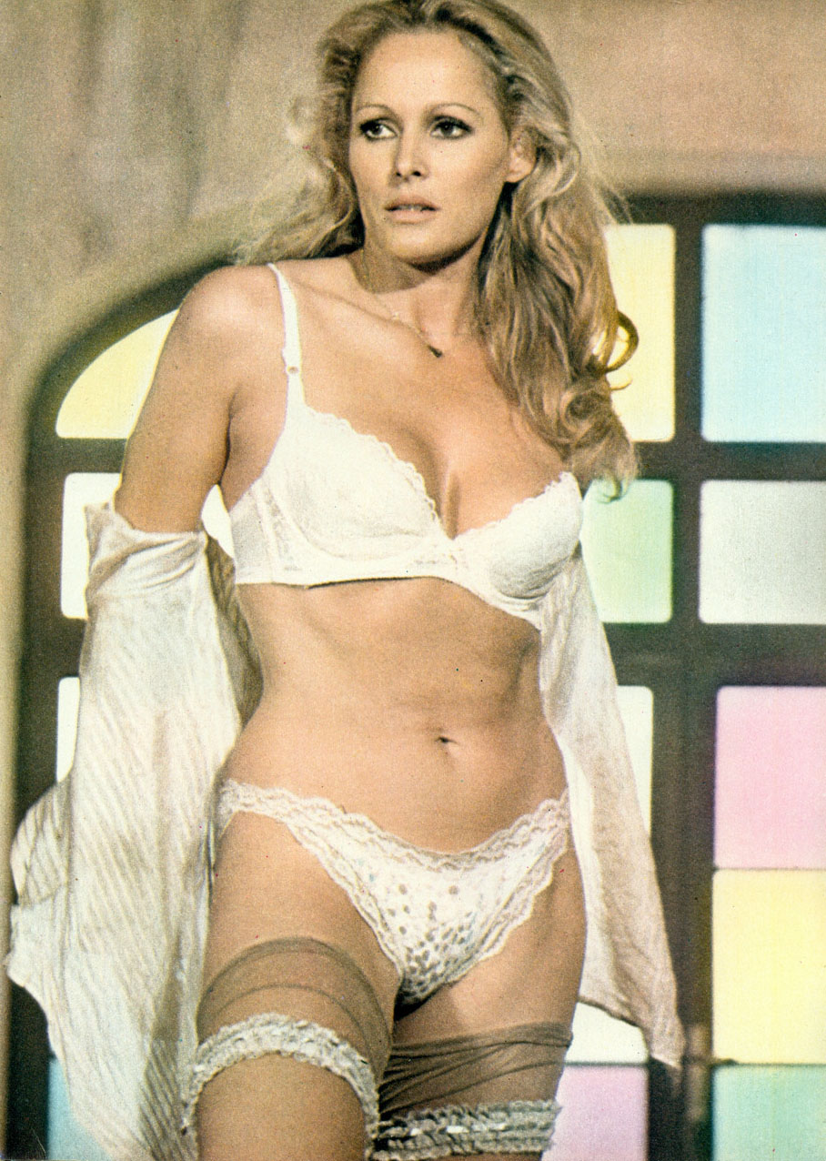 Swiss actress Ursula Andress on the set of the movie Colpo in canna (1975) by Fernando Di Leo.